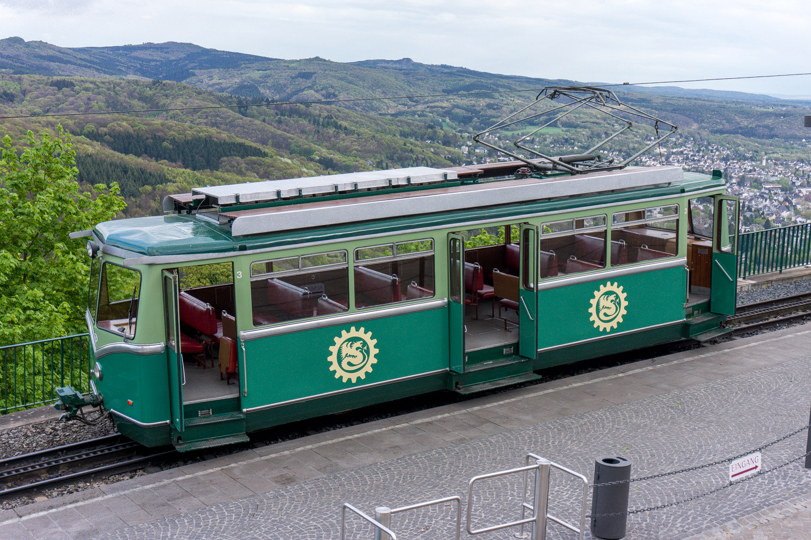 Drachenfels (cog-wheel) Railway at its final station, Drachenfels Schloss